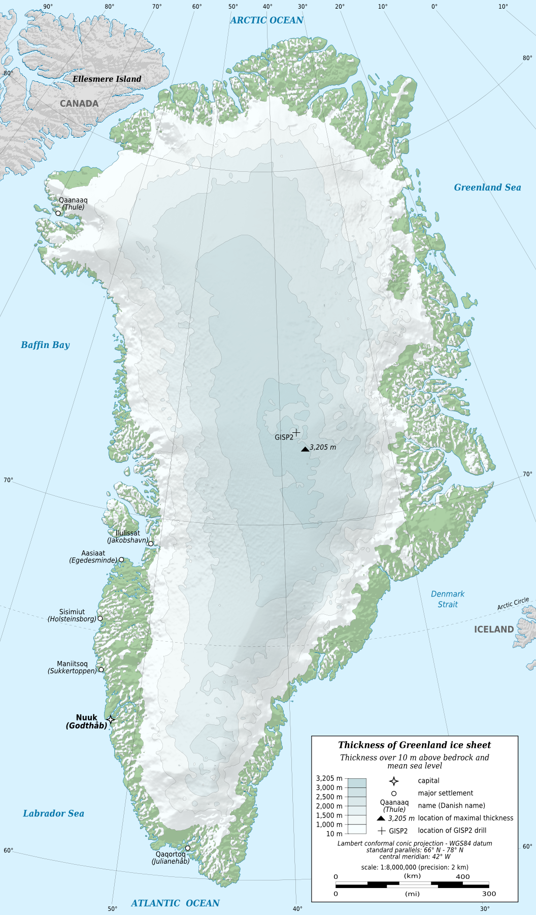 Map in English of Greenland ice sheet thickness. Thickness over 10 m above bedrock and mean sea level.